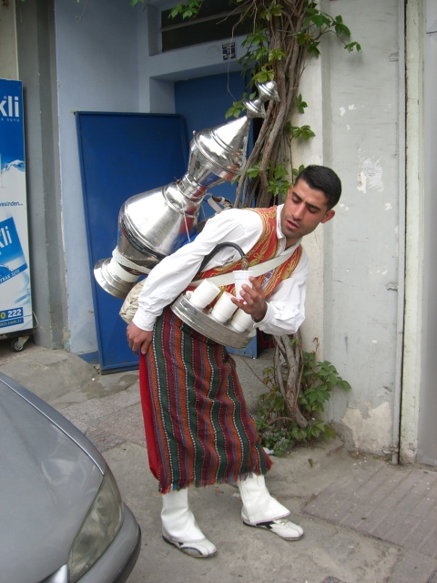 Istanbul, Turkey